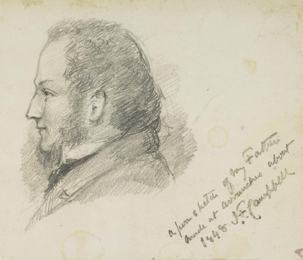 A poor sketch of my father (Walter F. Campbell) at Avranches about 1848, J. F. Campbell. Accession number: D 4126.34 B